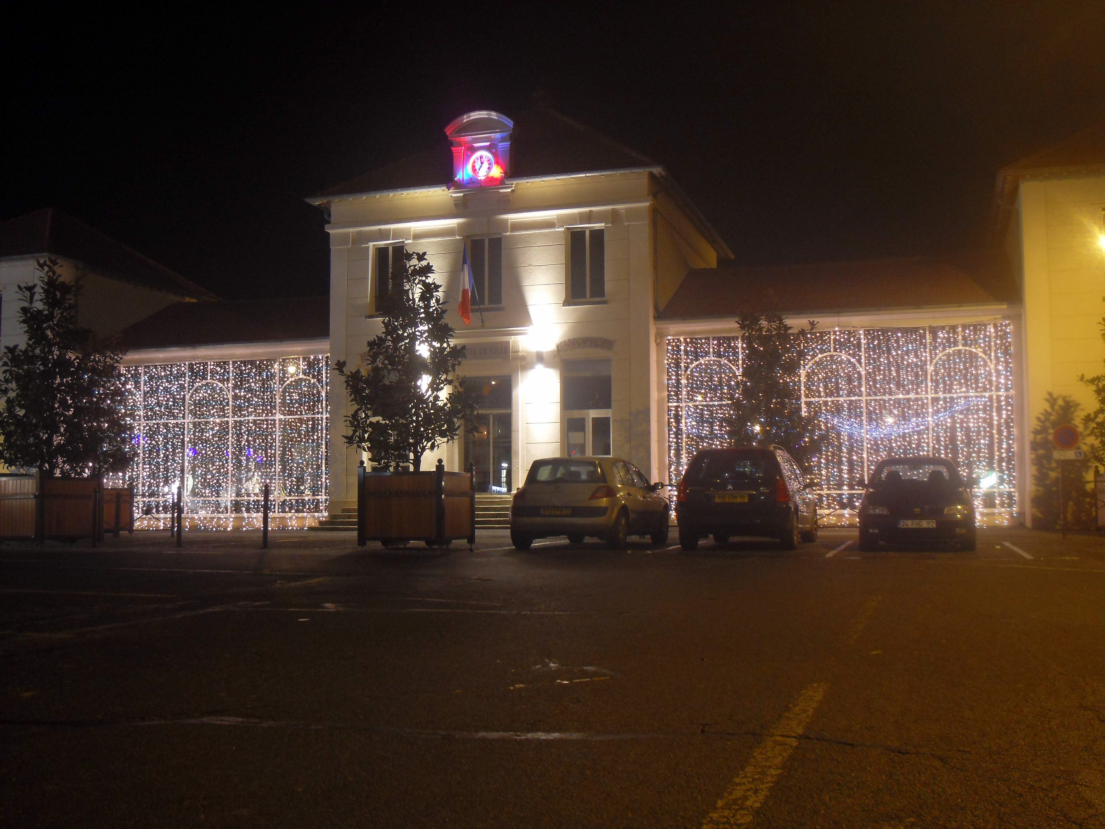 Ozoir-la-Ferrière town hall by night.